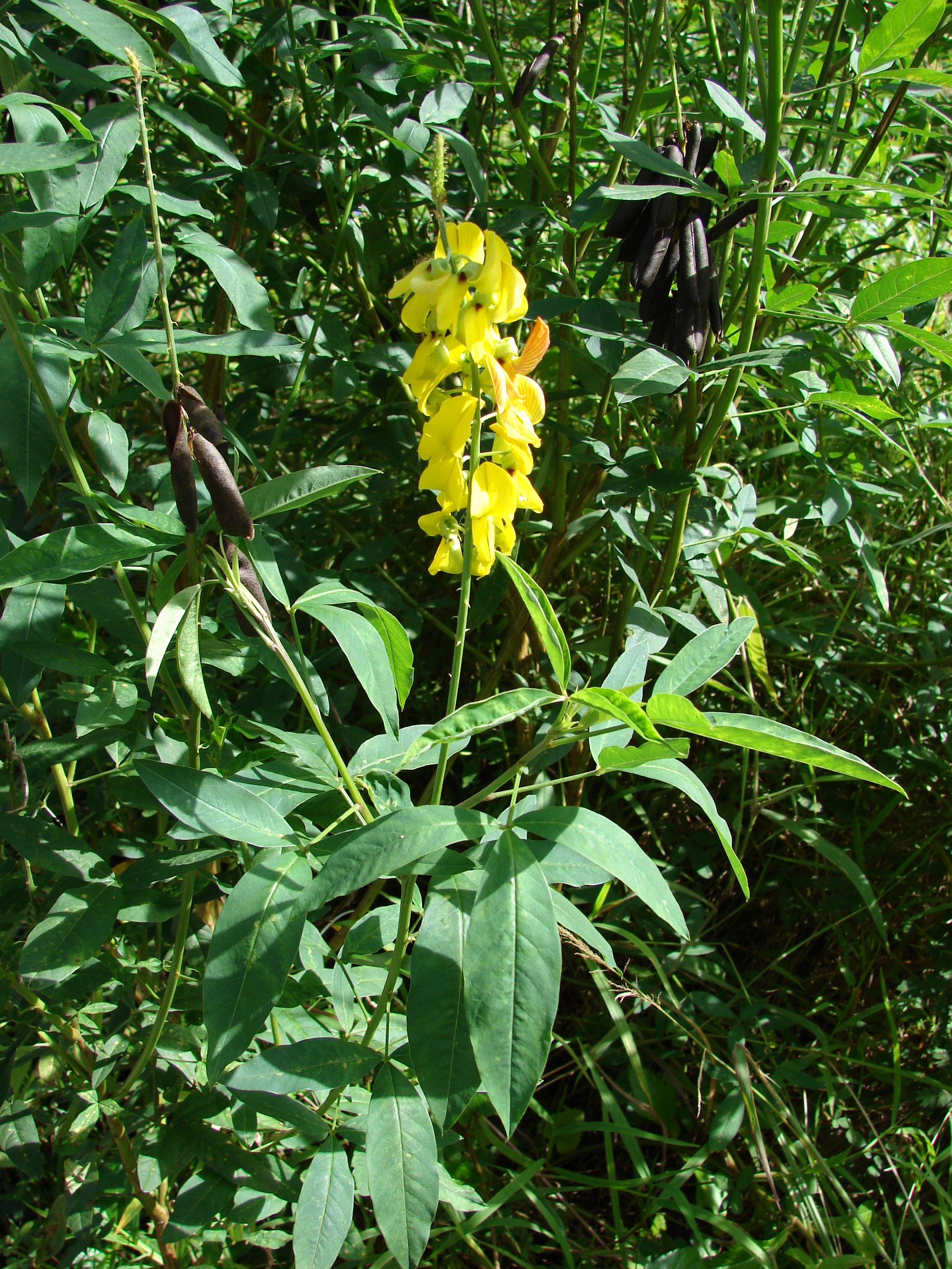 Crotalaria trichotoma (flowers fruit and leaves). Location: Maui, Ulumalu Haiku